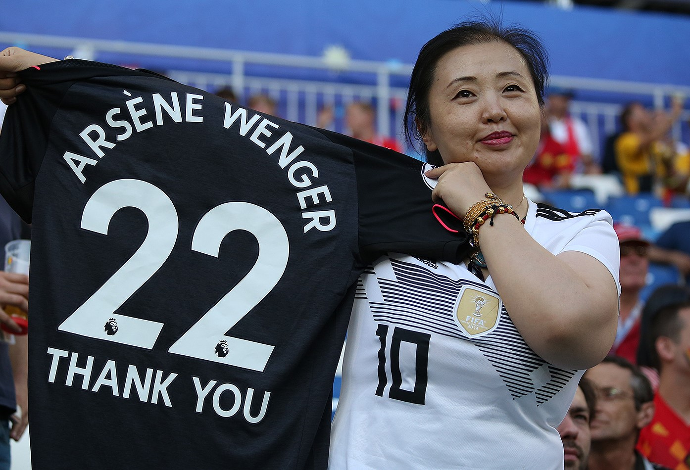 2018 FIFA World Cup Match 45, England v Belgium